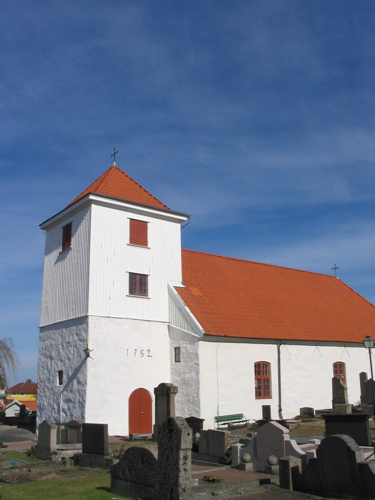 Styrsö church